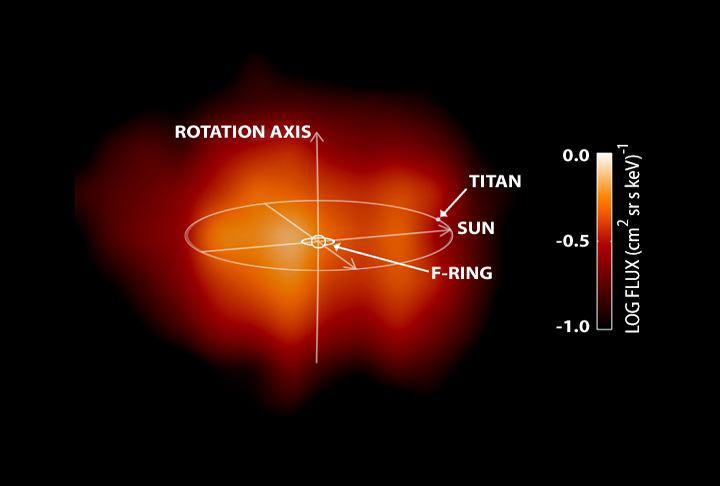 The image of plasma distribution in the magnetosphere of Saturn by Cassini's Magnetospheric Imaging Instrument